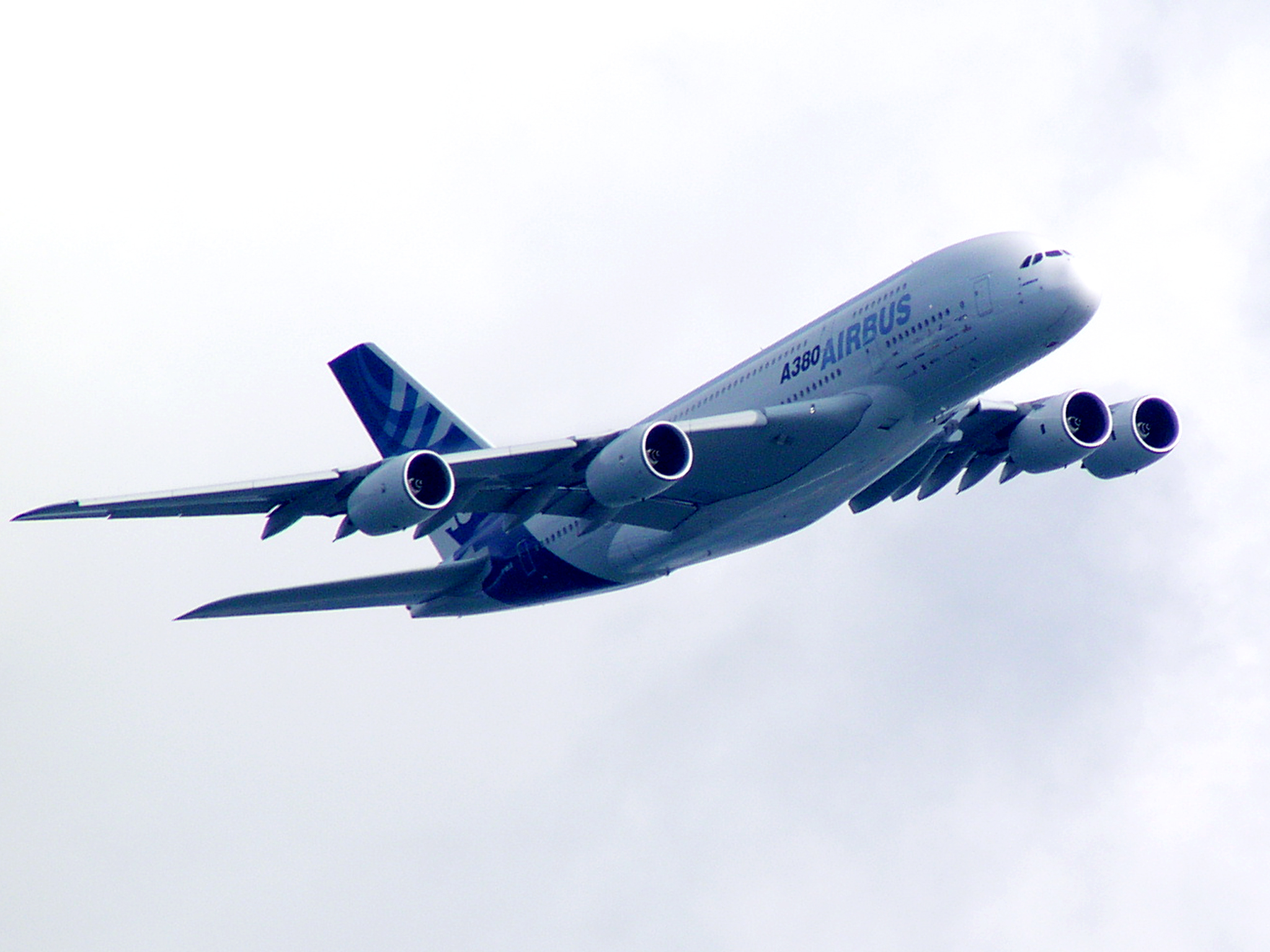 The jumbojet flying over Victoria Harbour, Hong Kong